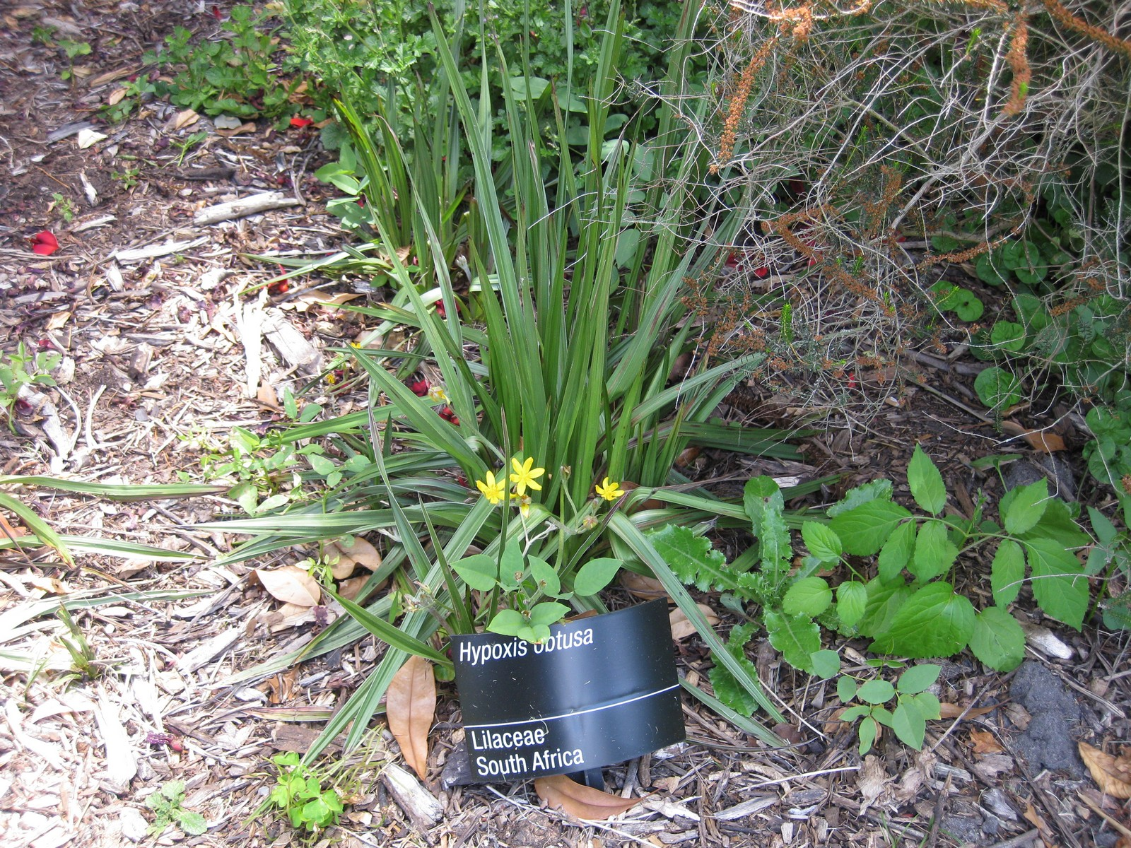 Photographed at the Royal Botanic Gardens Melbourne (Australia) in December